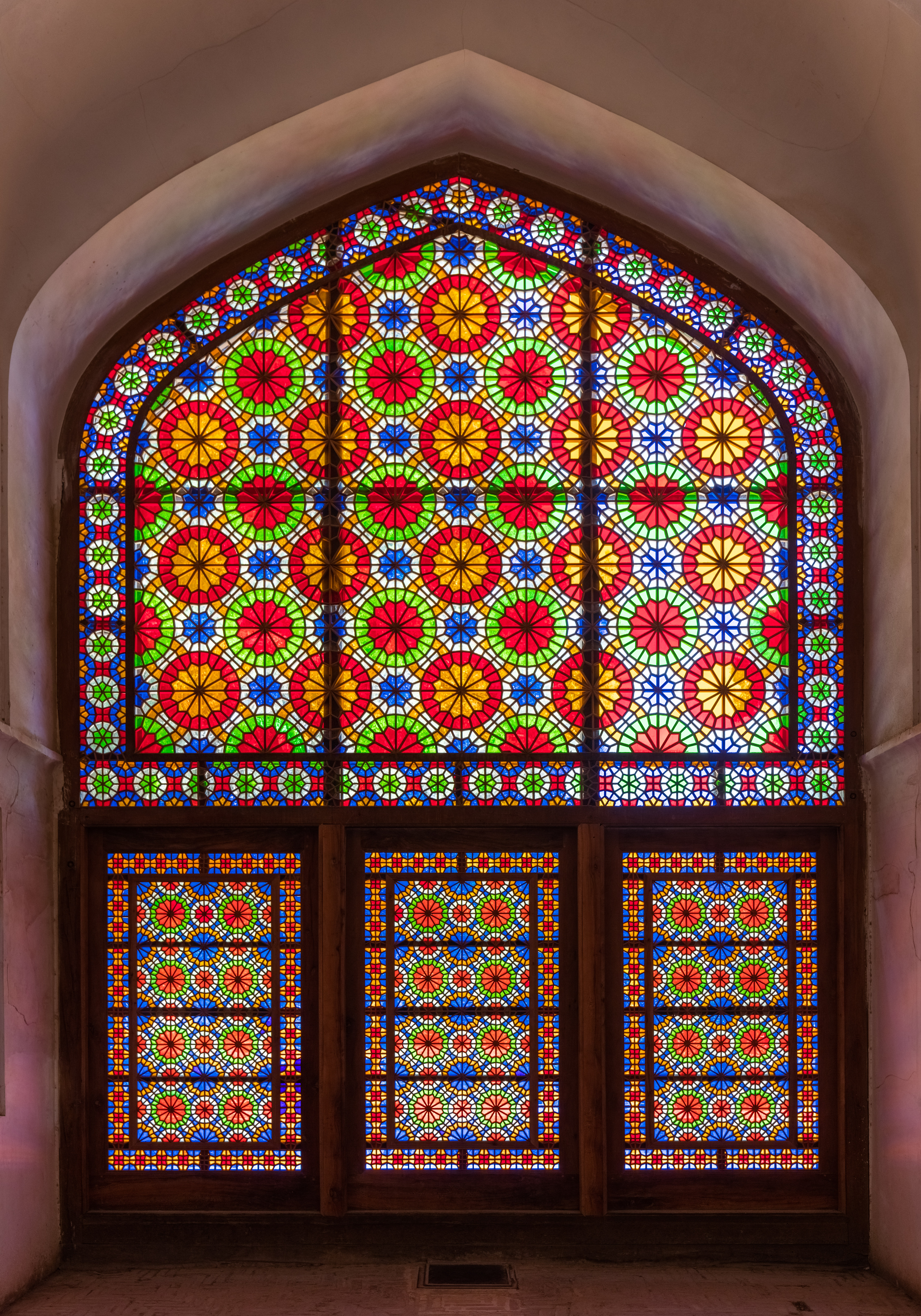 Stained-glass window in the pavilion of the Dolat-Abad Garden, Yazd, Iran